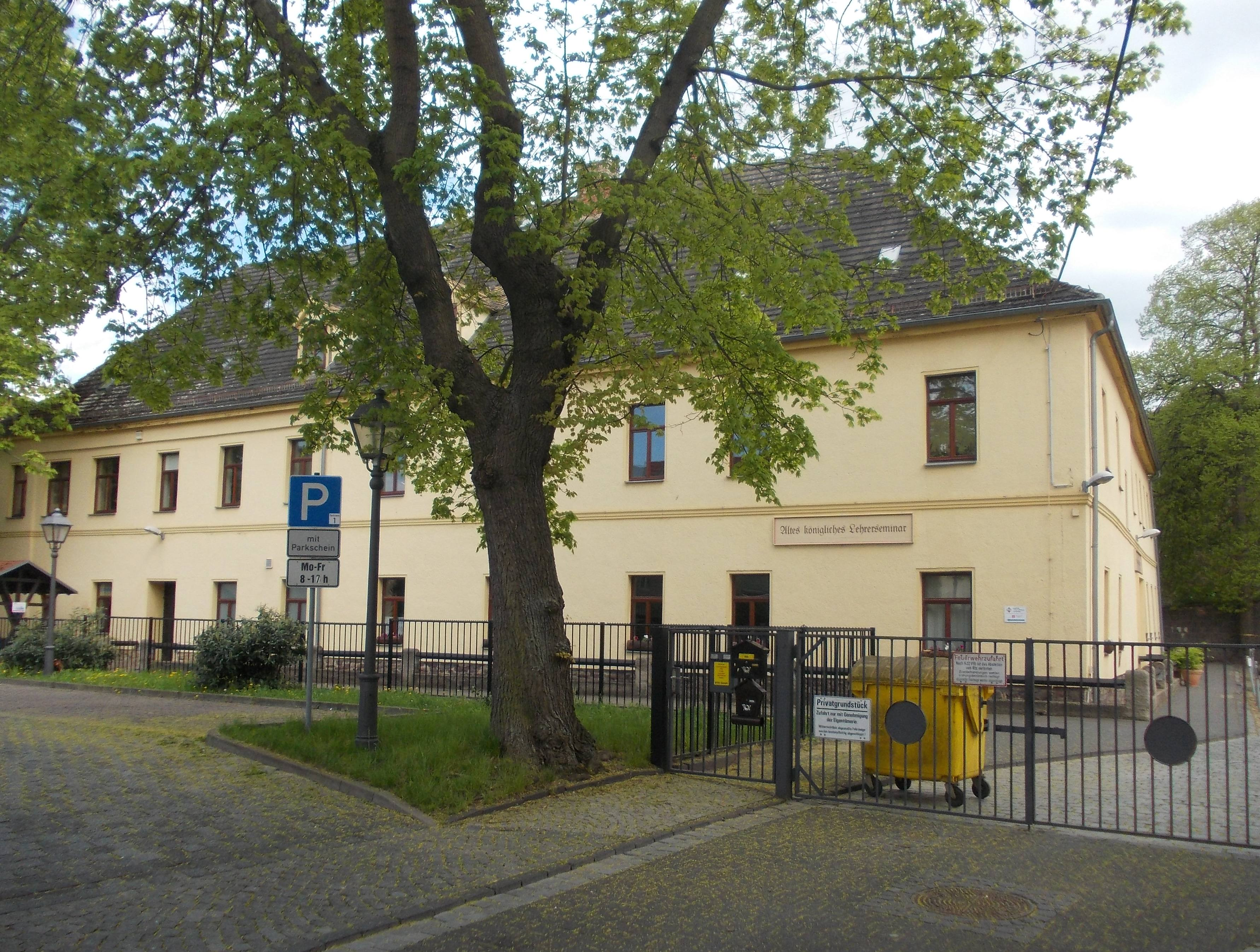 Former Royal Teacher's Seminar in Eisleben (Mansfeld-Südharz district, Saxony-Anhalt)